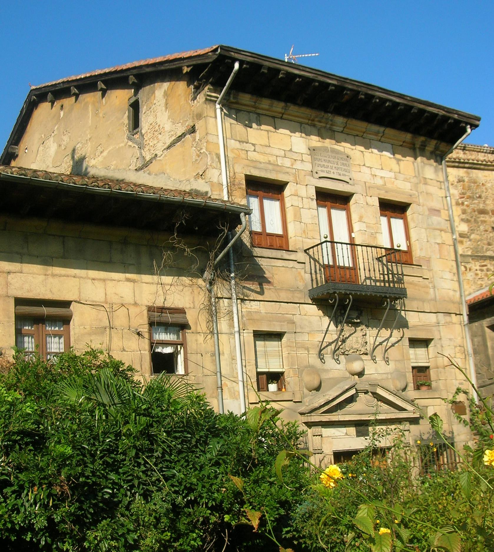 Zabala Palace in Zabala neighbourhood of Durango, Biscay, Spain. Birthplace of Bruno Mauricio de Zabala.